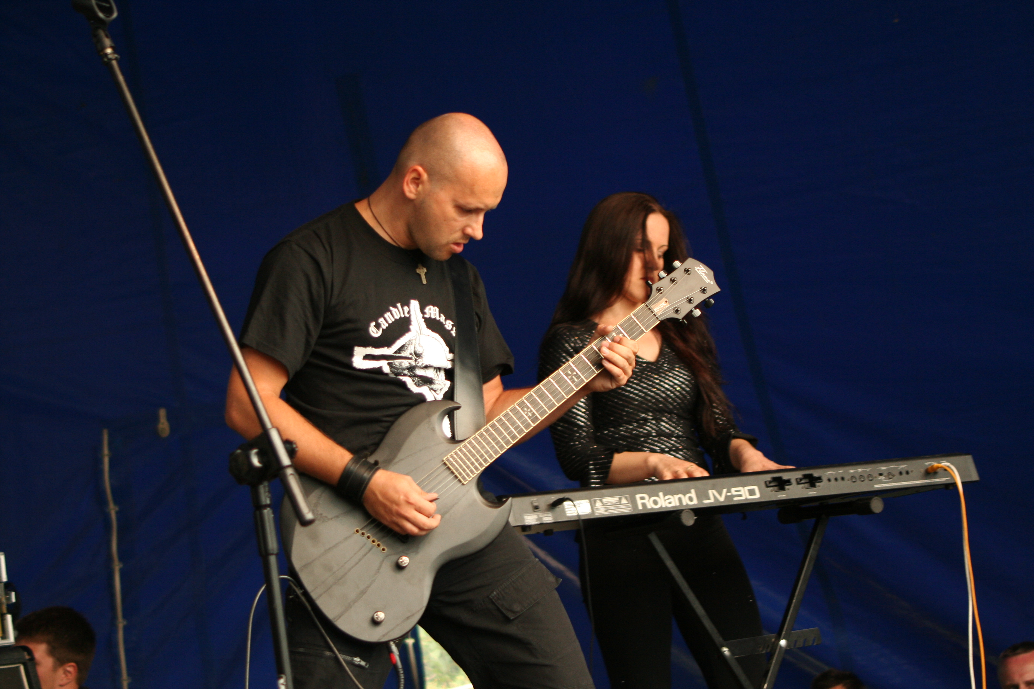 Castle Party 2007